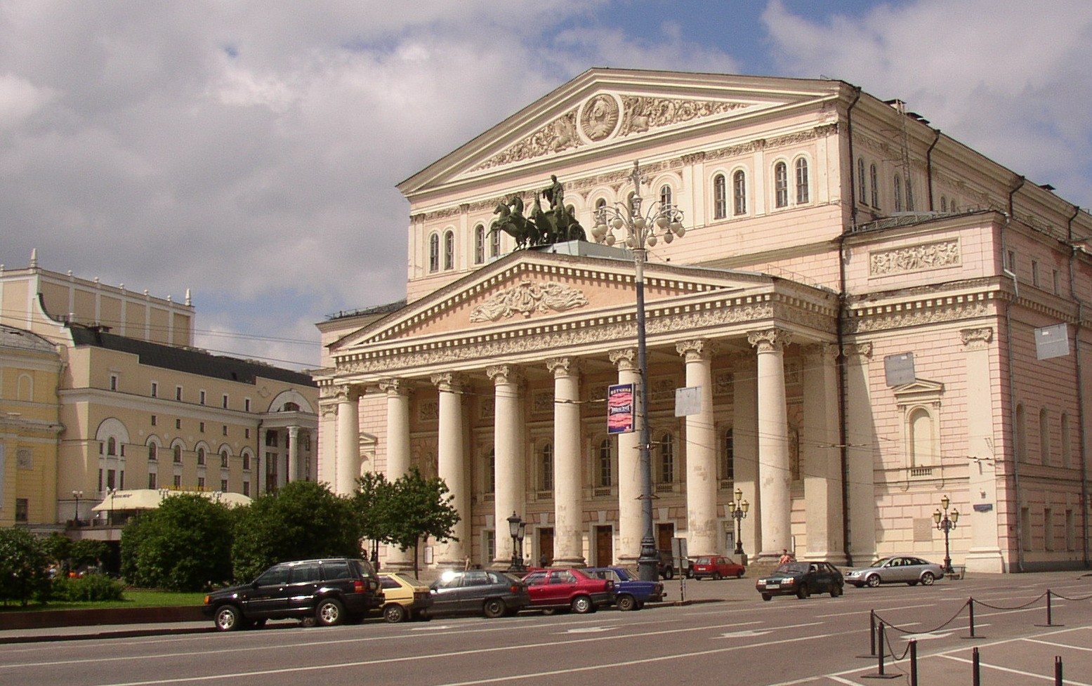 Bolshoi Theatre in Moscow, Russia